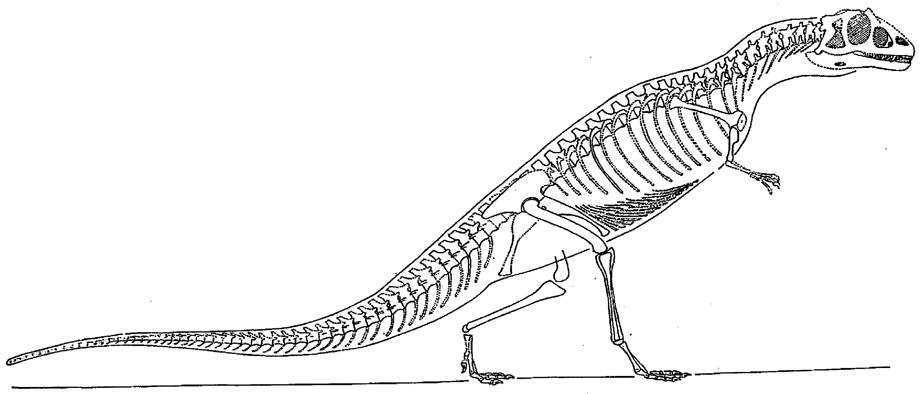 Restoration of Streptospondylus cuvieri, actually depicting Eustreptospondylus.